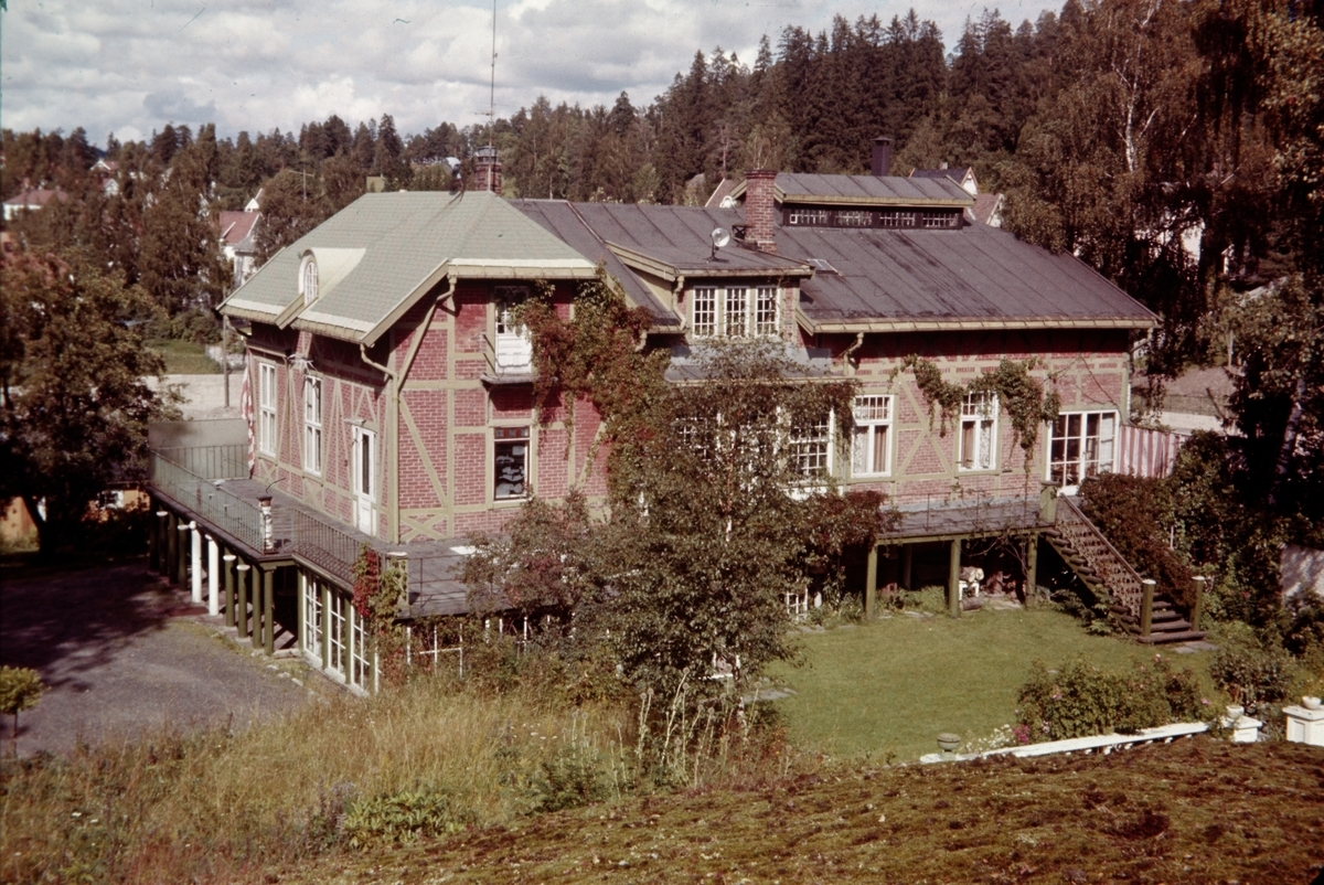 Depicted place: Christinedal